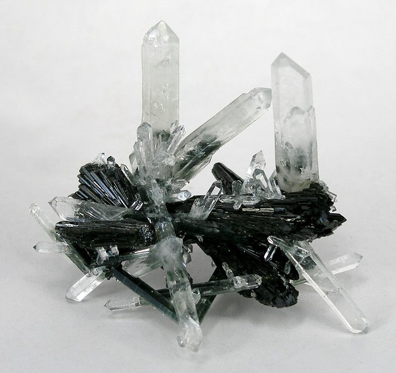 Epidote, Quartz Locality: Shengus (Shingus), Haramosh Mts., Skardu District, Baltistan, Northern Areas, Pakistan (Locality at ) Size: small cabinet, 6.2 x 4.5 x 4.2 cm Quartz and Epidote This is an aesthetic floater specimen, composed of intergrown quartz and epidote. The epidote is flat-lying, lustrous, dark, pistachio green, in crystals to 3.0 cm in length. The quartz crystals are translucent to transparent, colorless and reach 3.5 cm in length.